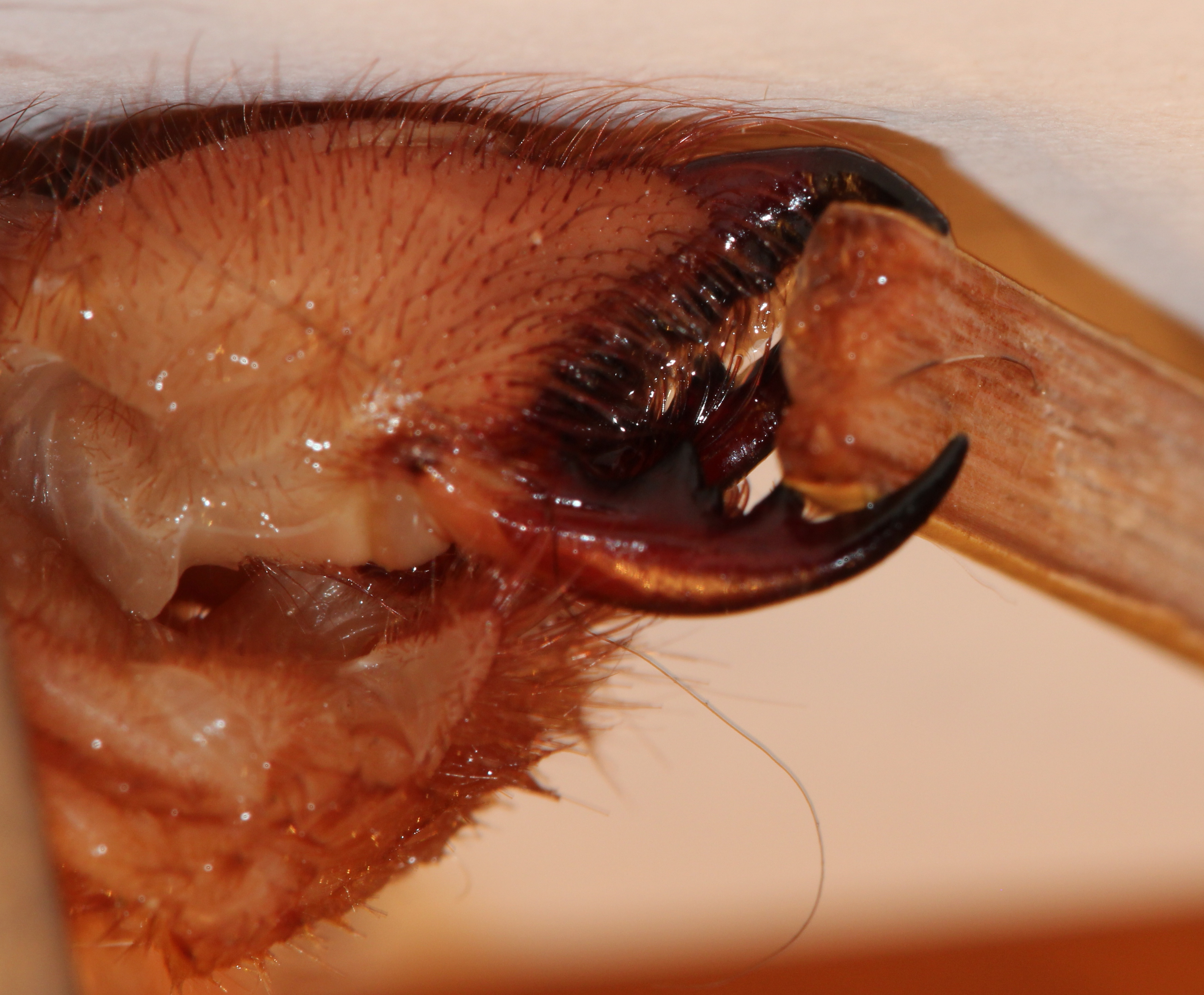 Solifugae. Lateral aspect of Chelicera wedged open with stick